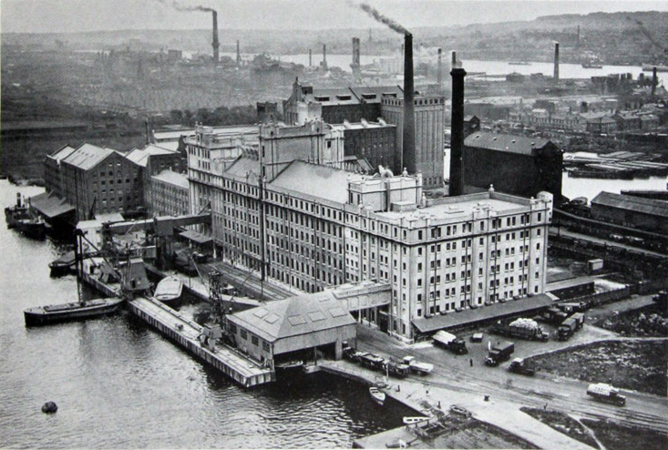 Spiller's Millennium Mills, Royal Victoria Dock, London, 1934. Originally published in the "Spillers: 1934 Review" chapter of British Commerce and Industry 1934.